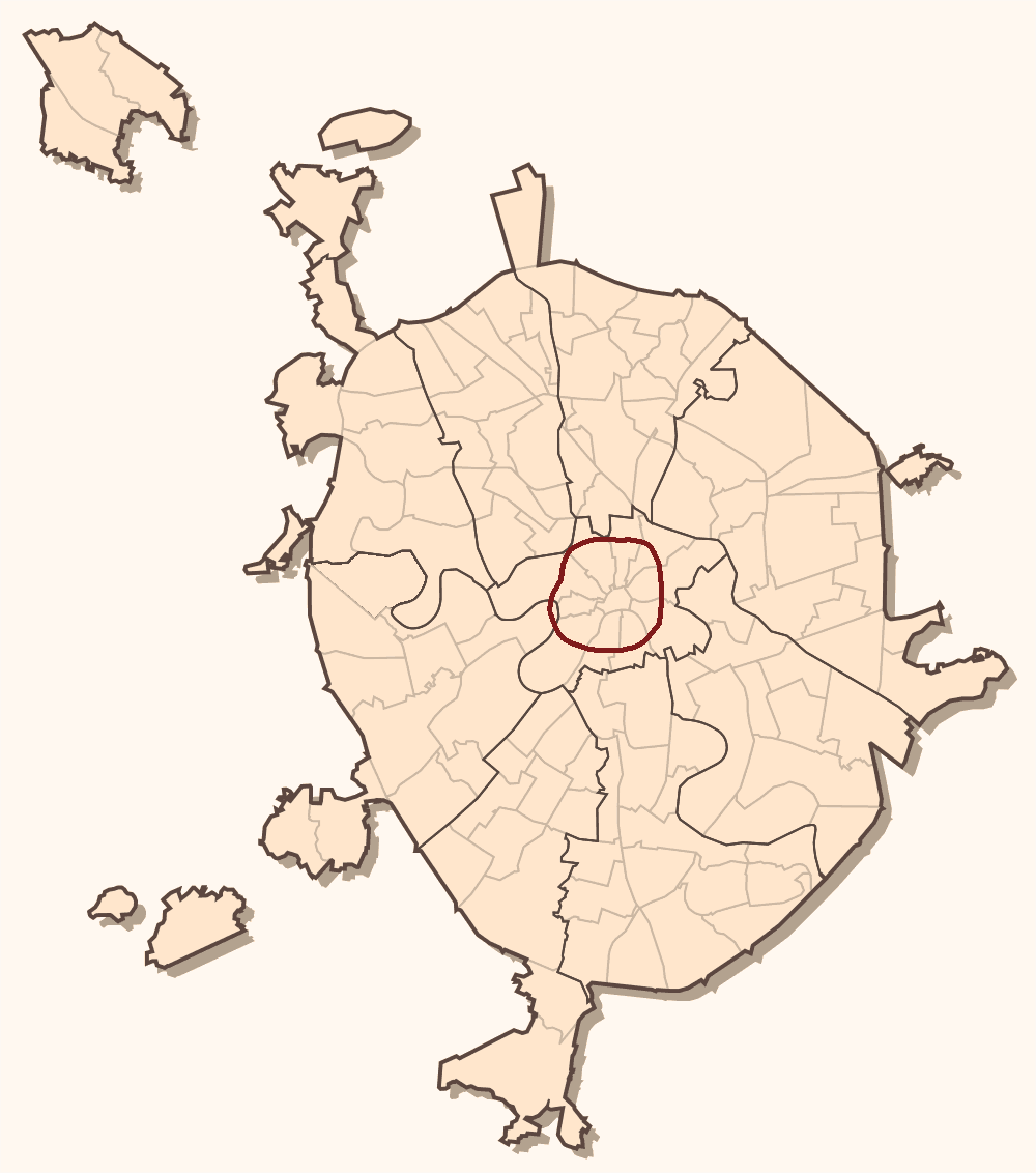 Map of Koltsevaya line of Moscow Metro on Moscow map